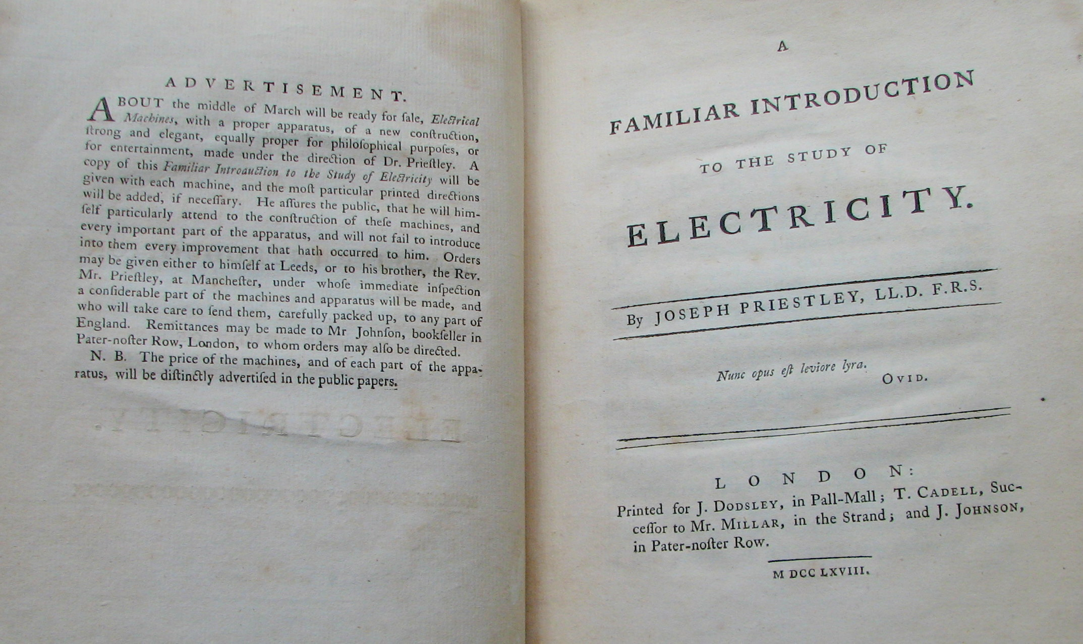 The title page and facing advertisement from the 1st edition (1768) of Joseph Priestley's A Familiar Introduction to the Study of Electricity.